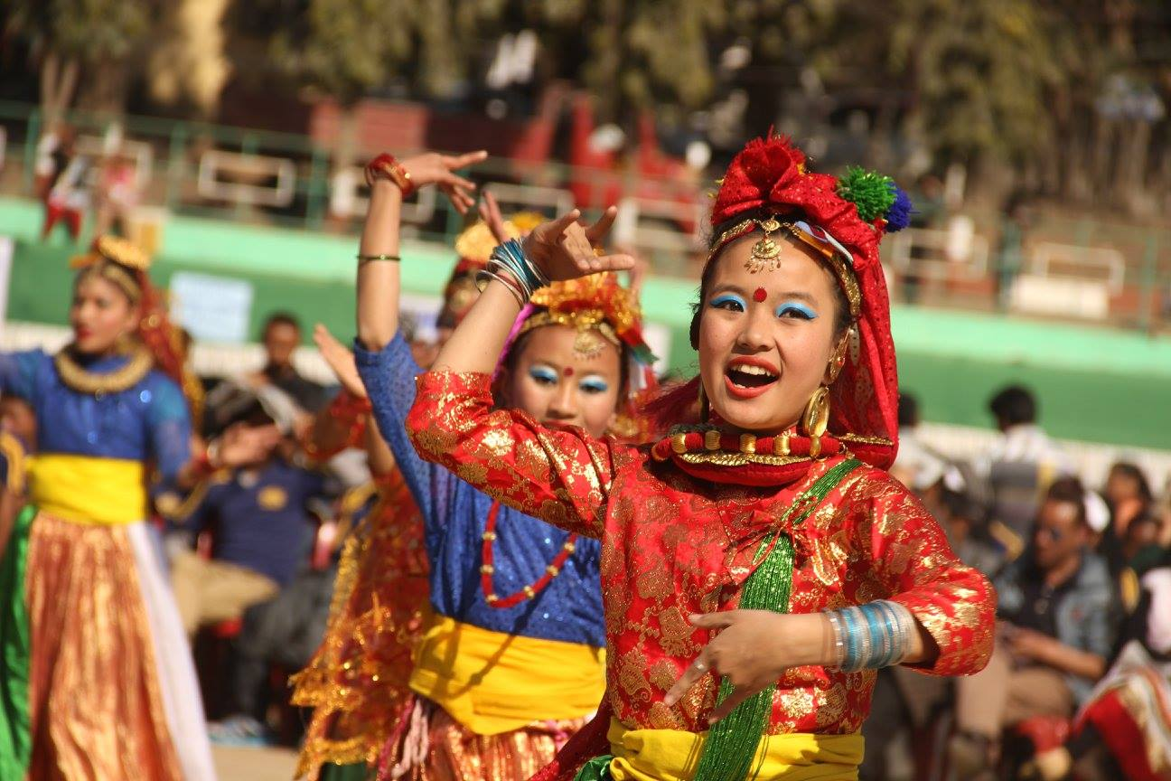 Students of jorethang performing traditional dance